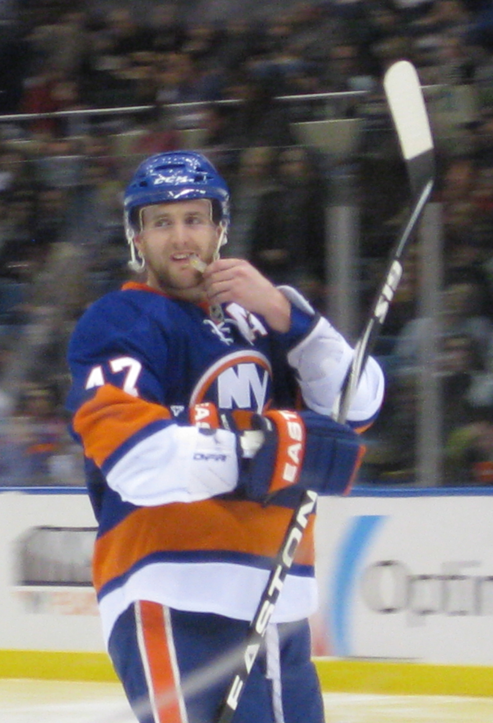 Andrew MacDonald with the New York Islanders during a game vs. the Pittsburgh Penguins on December 29,2010